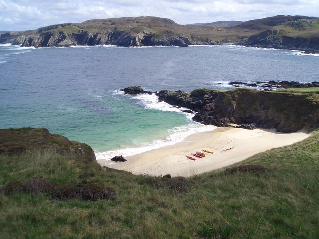 Coomb Island. A secret beach on Coomb Island. Not visible from the nearby mainland this beach made a lovely landing spot on our weekend camping trip